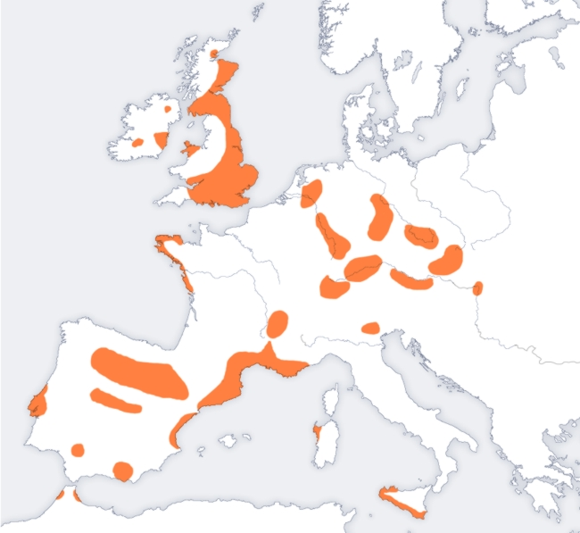 Occurence of finds of the Bell Beaker Culture